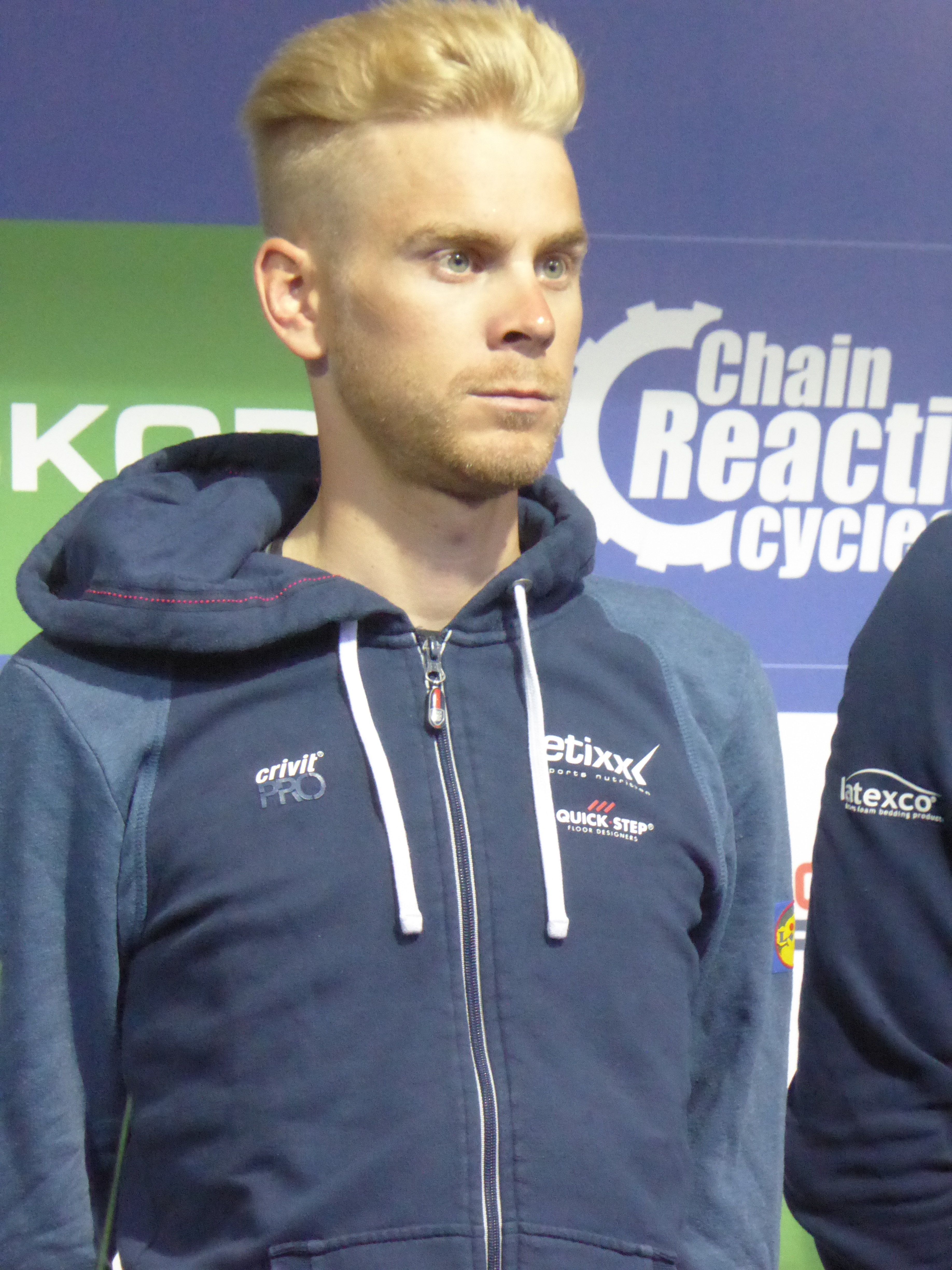 Julien Vermote (Etixx-Quick Step), pictured at the 2016 Tour of Britain team presentation in Glasgow on 3 September 2016.